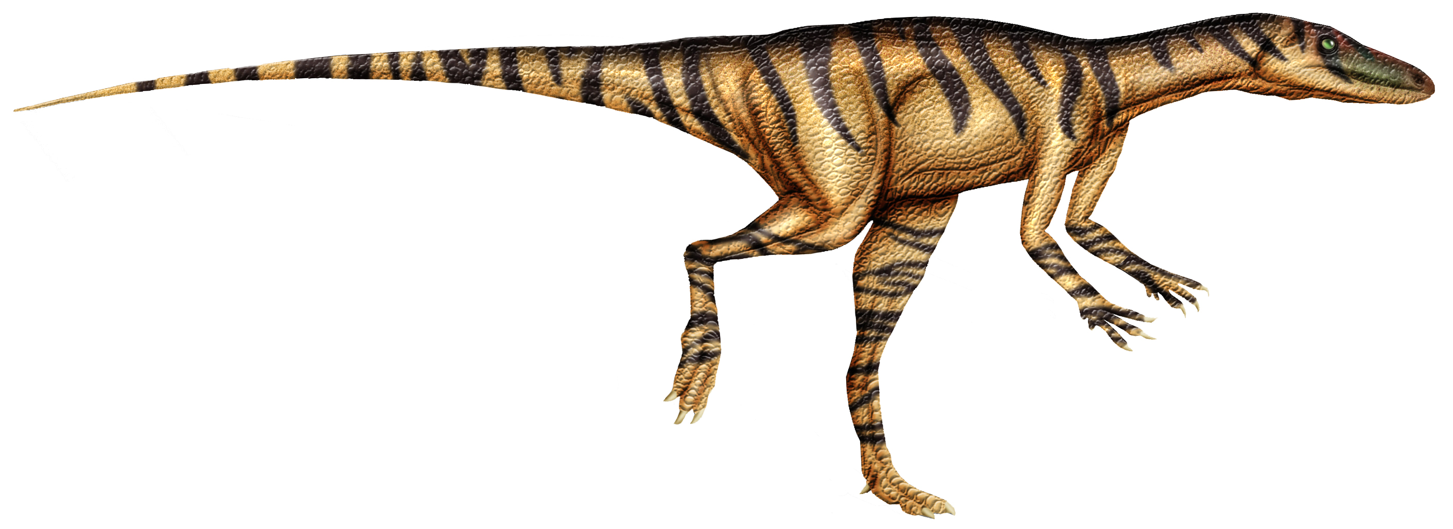 Illustration of Alwalkeria maleriensis by Karkemish